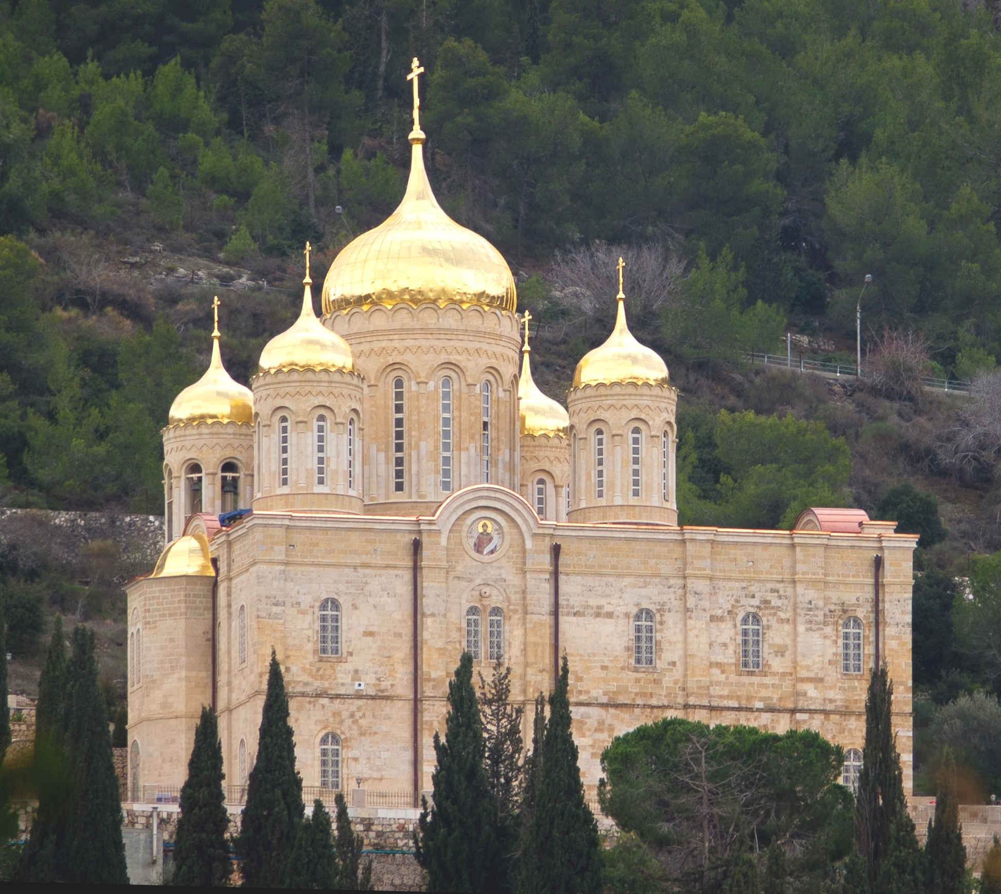 Built by the Russian Orthodox Church at the end of the 19th century, this church (originally "Gorny Monastery" — Горненский монастырь (Эйн-Карем)) was nicknamed "Moskovia" (Arabic for Moscow) by the local Arab villagers, because of its tented roof similarity to other Russian churches. The monastery has two churches enclosed within a compound wall. Data from Wiki Jerusalem